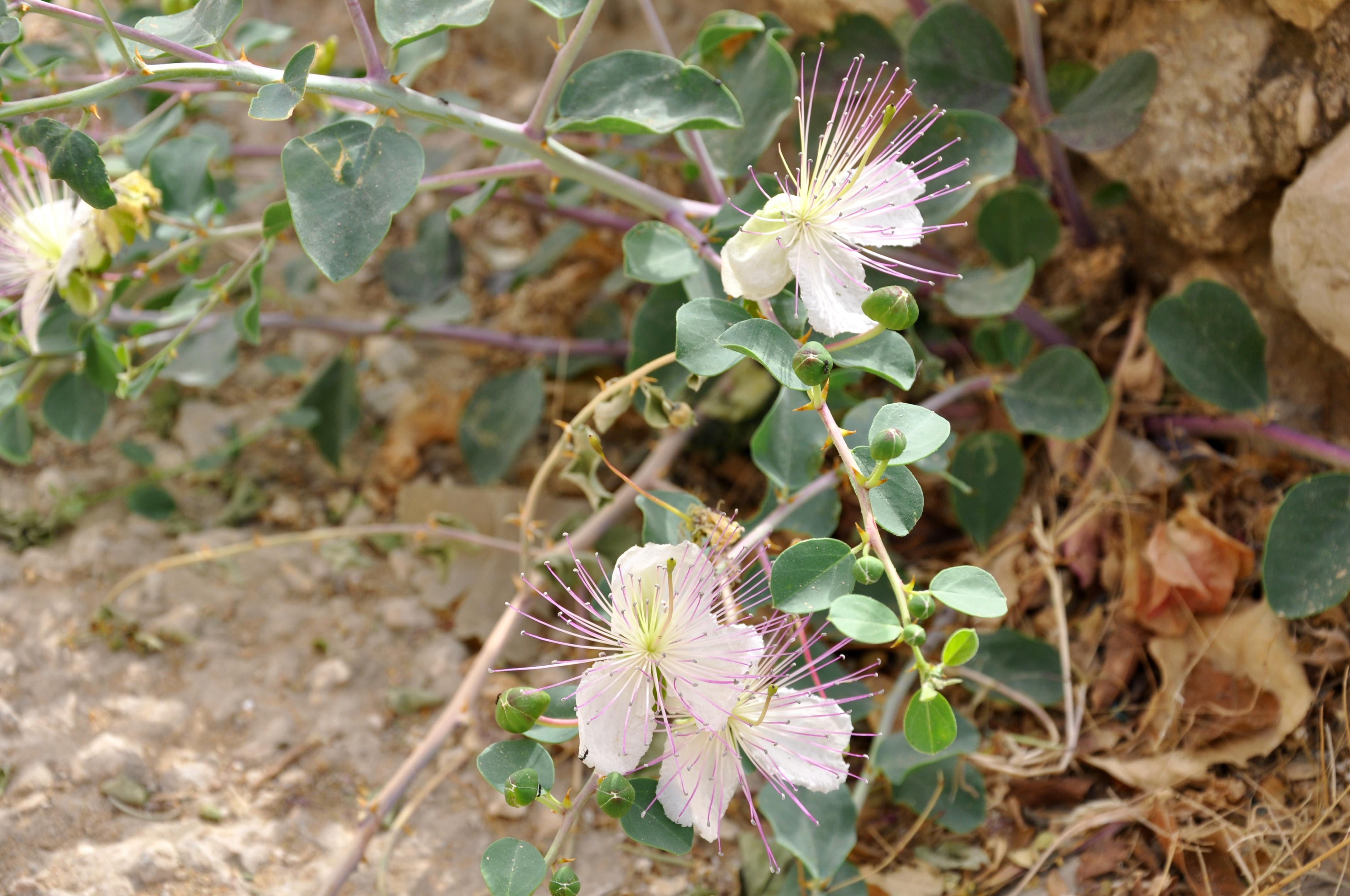 Taken in Palestina